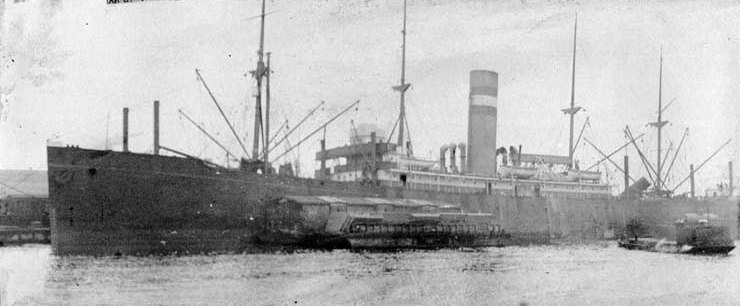 US Navy cargo ship USS Oosterdijk (ID-2586), possibly at the time of her inspection by the 5th Naval Distric.